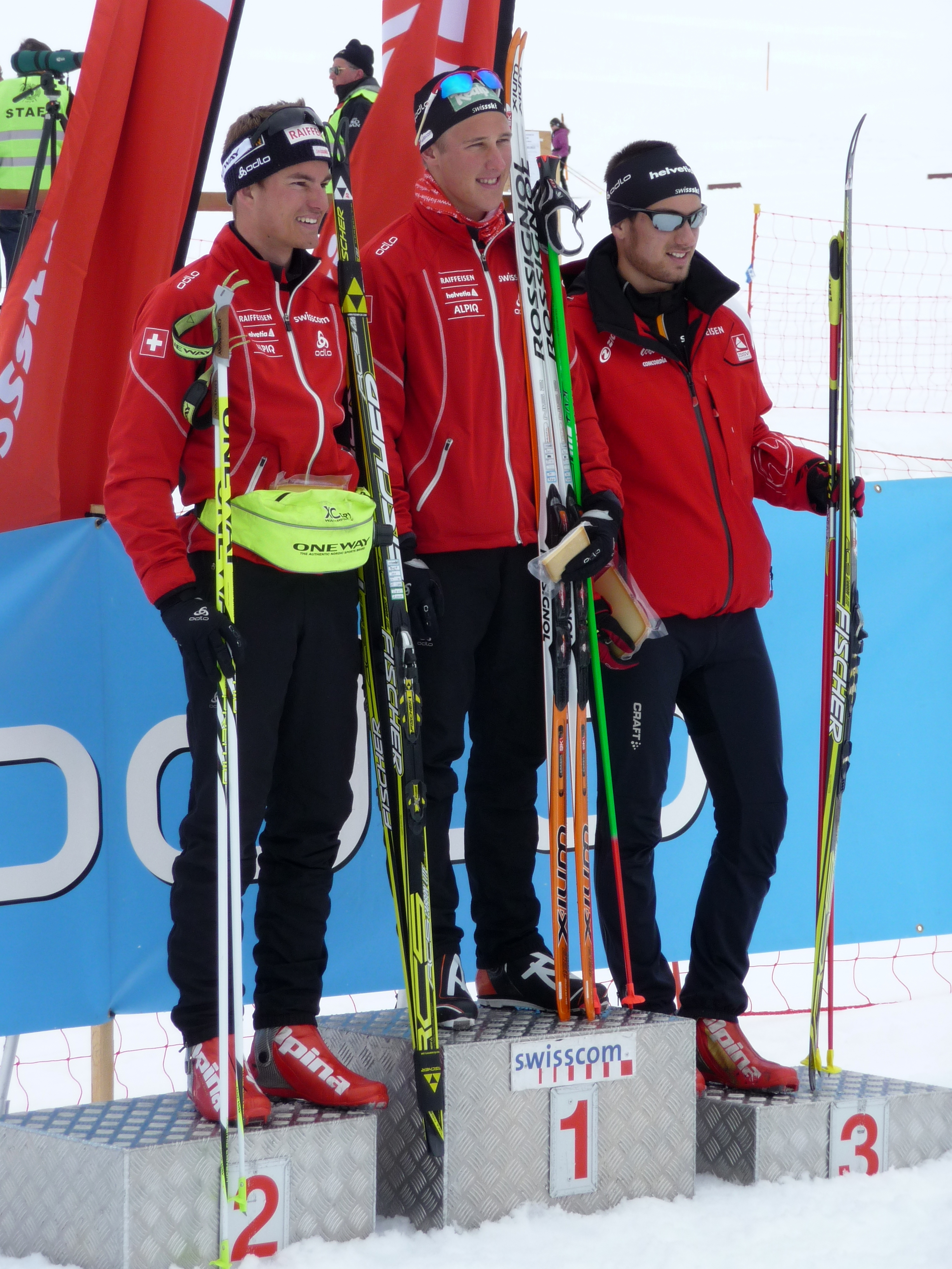 Swiss biathletes Pascal Wolf, Kevin Russi and Lukas Bieri at National Championships in Biathlon 2013 (Podium Sprint Race Junior) in La Lécherette, Switzerland